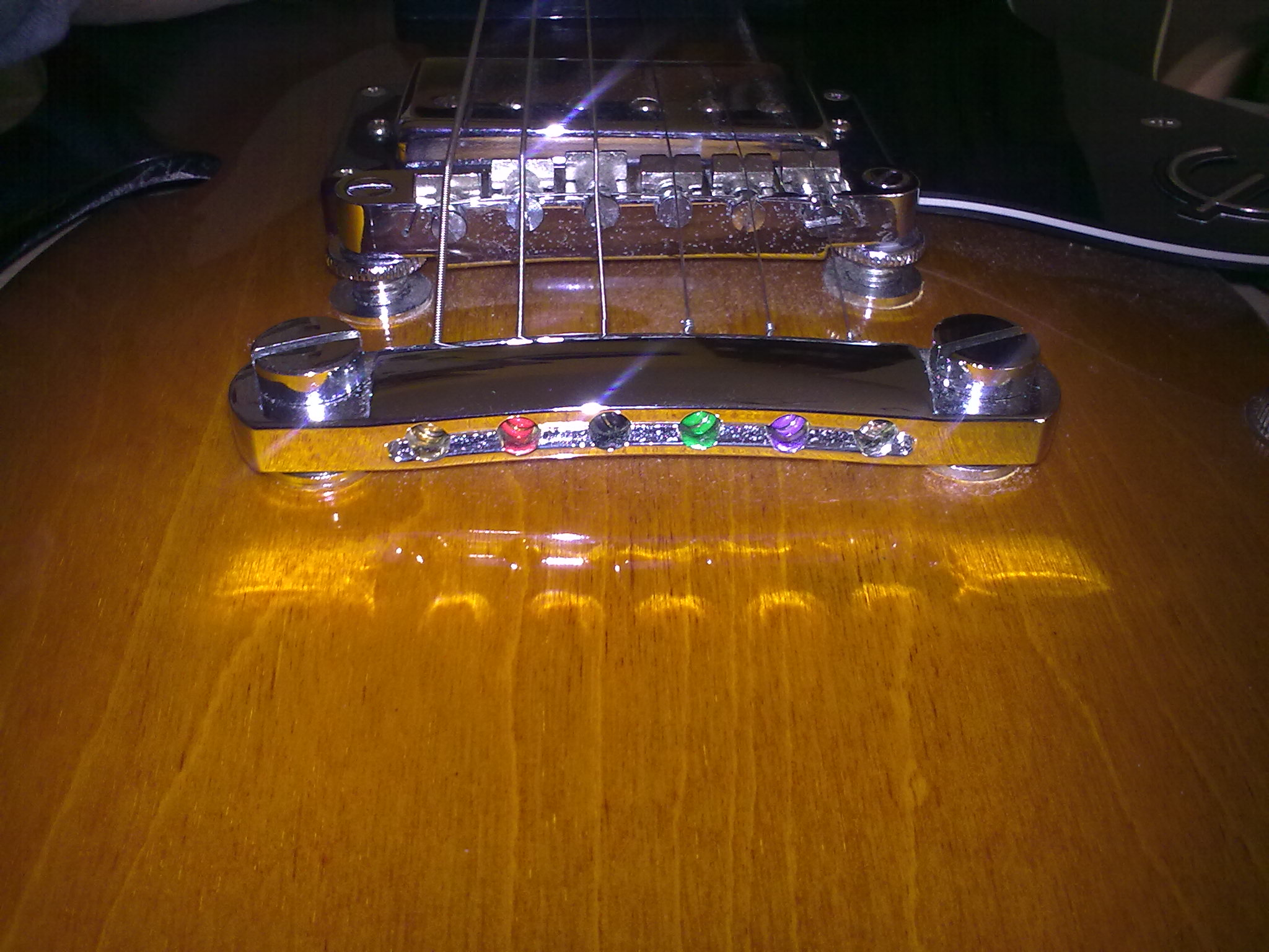 colored ball string end guitar